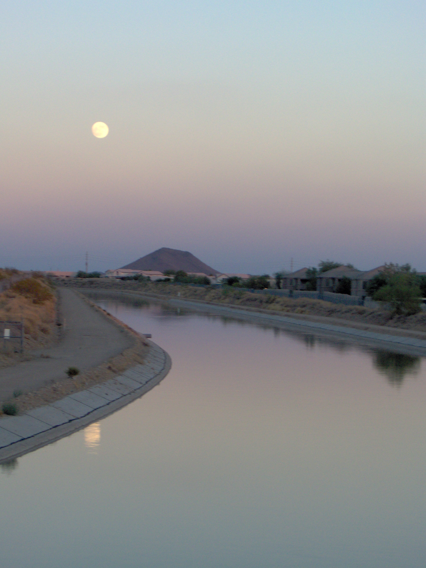 Taken by myself in Scottsdale, Arizona from the bridge on Via Linda just north of Frank Lloyd Wright Boulevard.